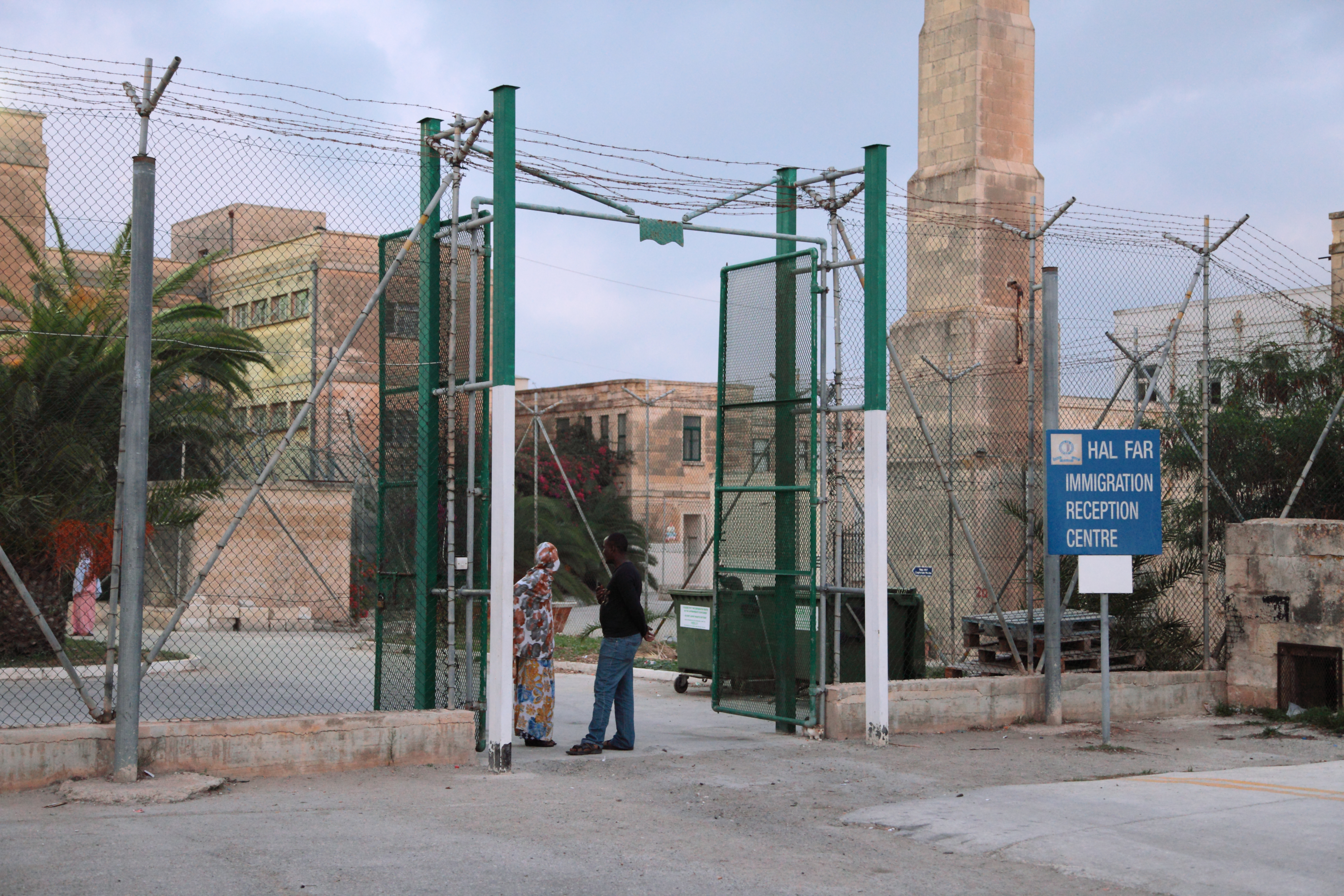 Hal Far: open centre for refugees, house for families